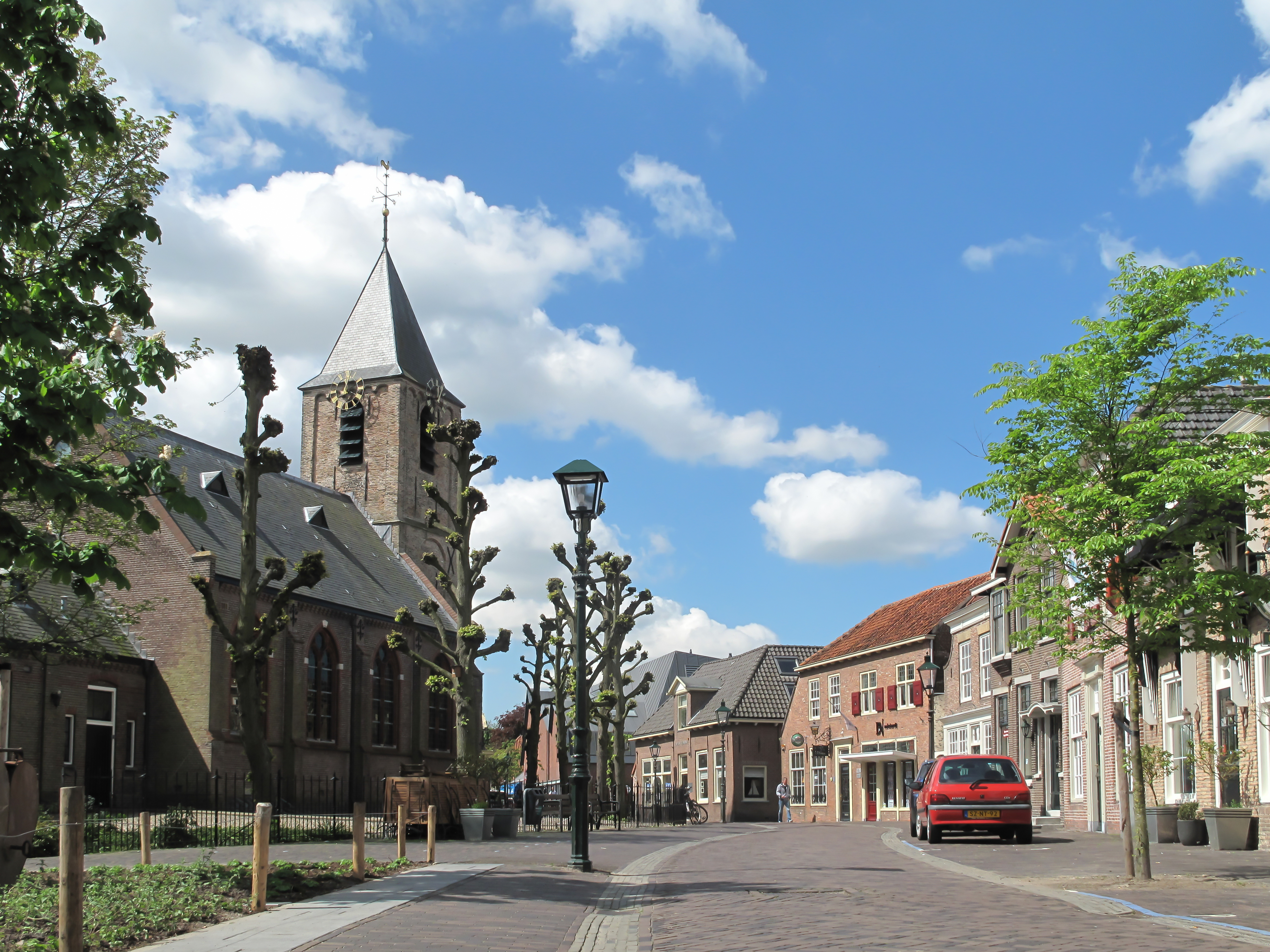 Nootdorp, view to a street with church (RM30777)